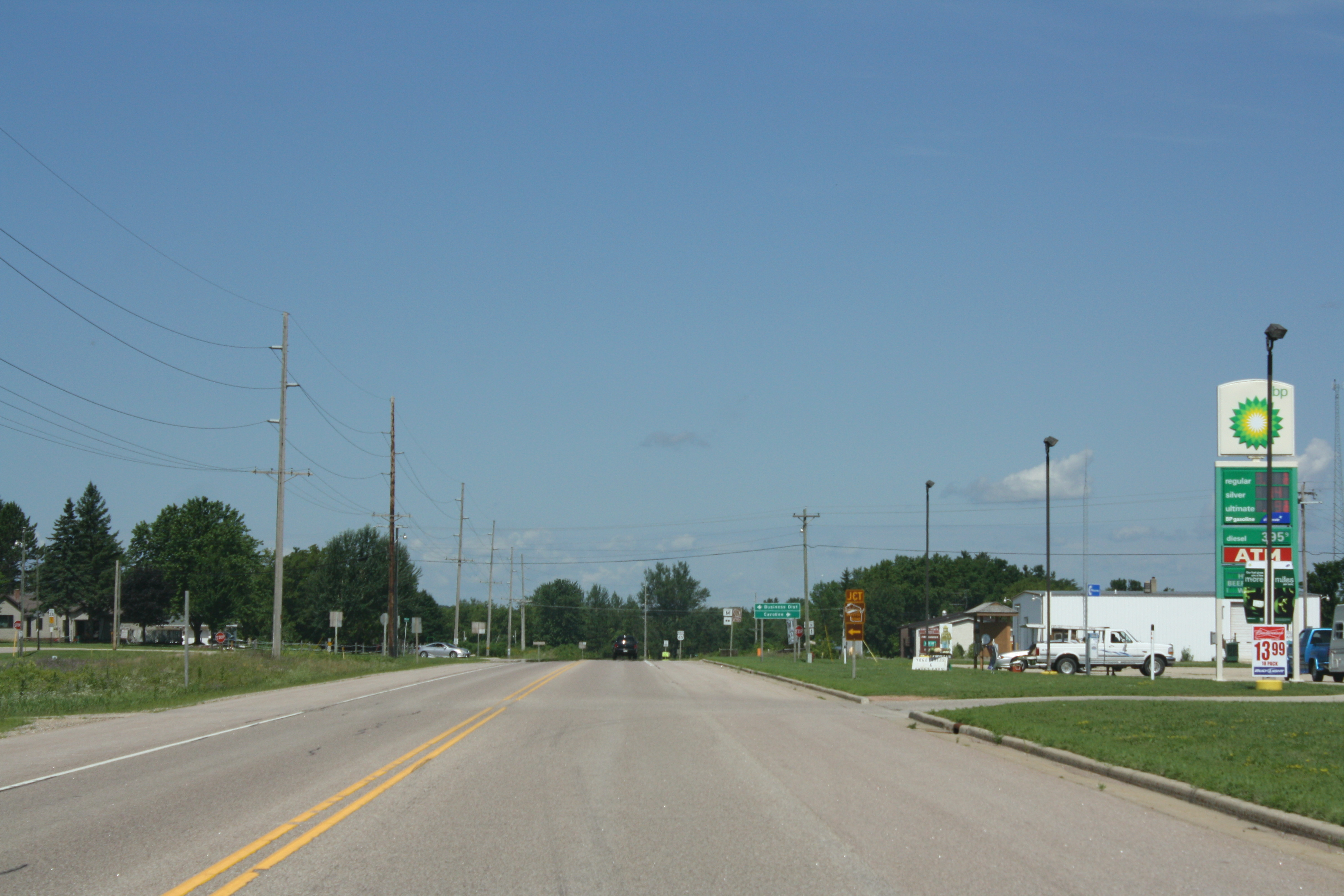 Looking north at Tigerton, Wisconsin on U.S. Route 45.